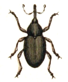 Tychius stephensi, from Calwer's Käferbuch, Table 33, Picture 12. Taxonomy was updated to 2008, using mostly the sites Fauna Europaea and BioLib. Please contact Sarefo if the determination is wrong!